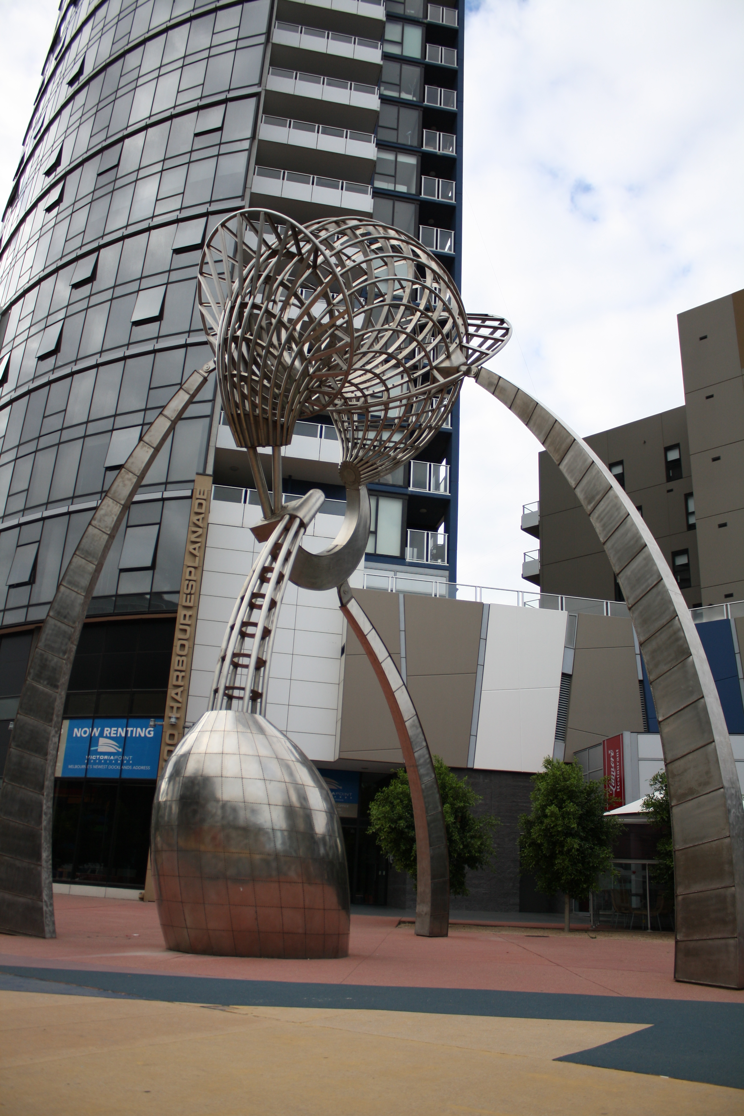 Sculpture Aurora by Geoffrey Bartlett, Melbourne Docklands/Australia